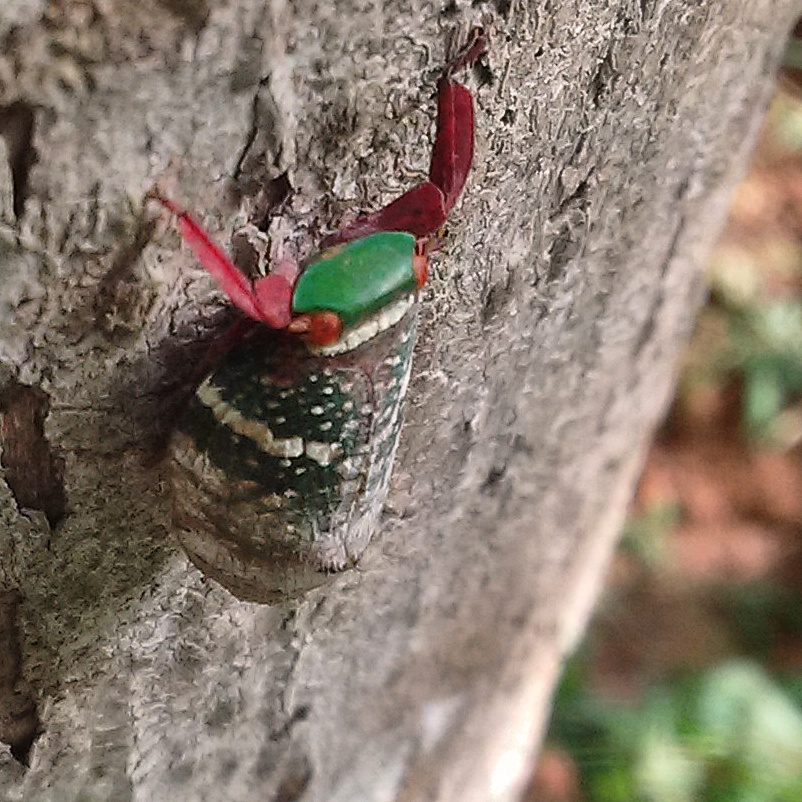 Eurybrachys sp (In "tomentosa" group), Eurybrachidae. at Mechod Padur